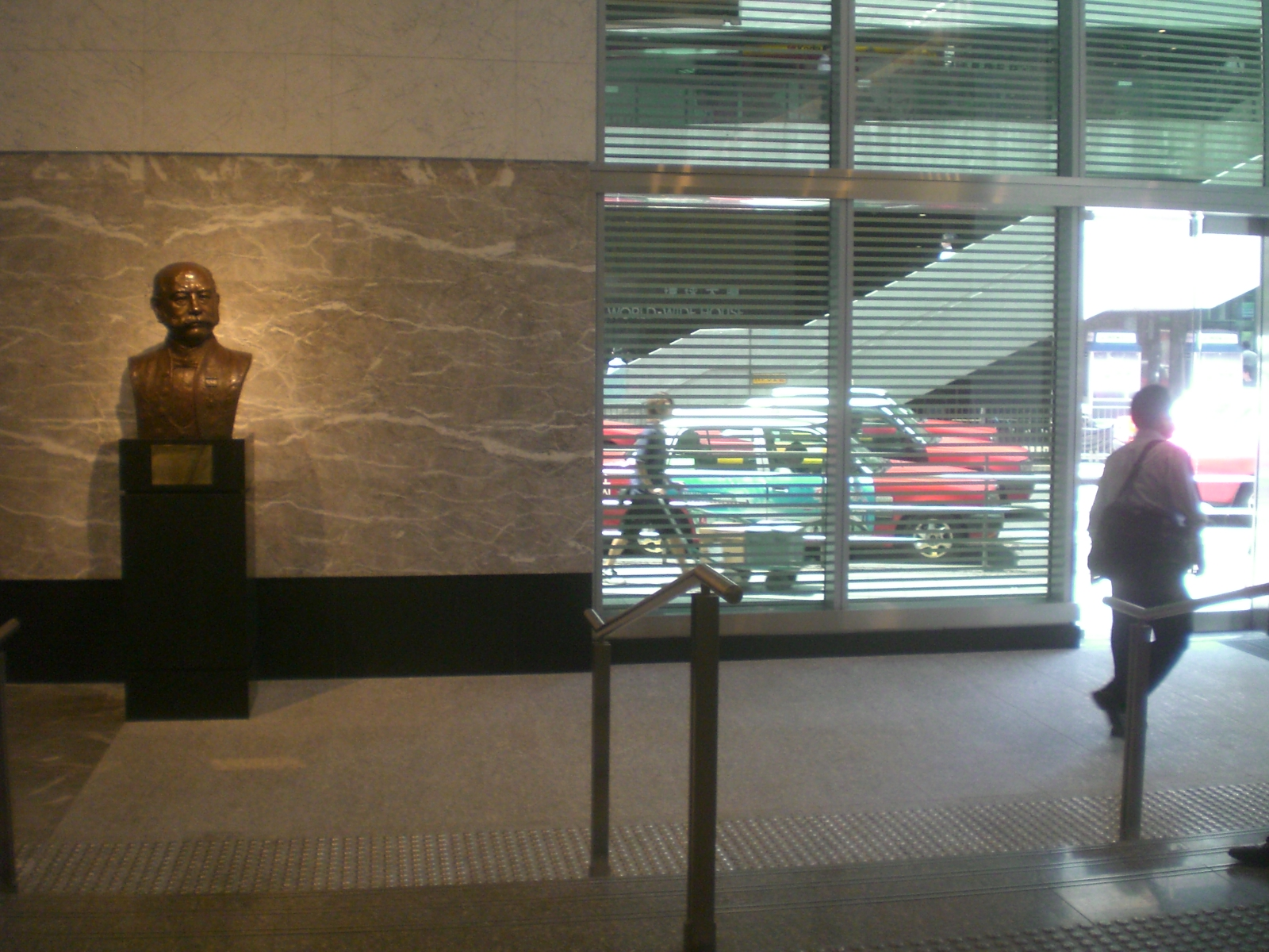 吉席·保羅·遮打 爵士